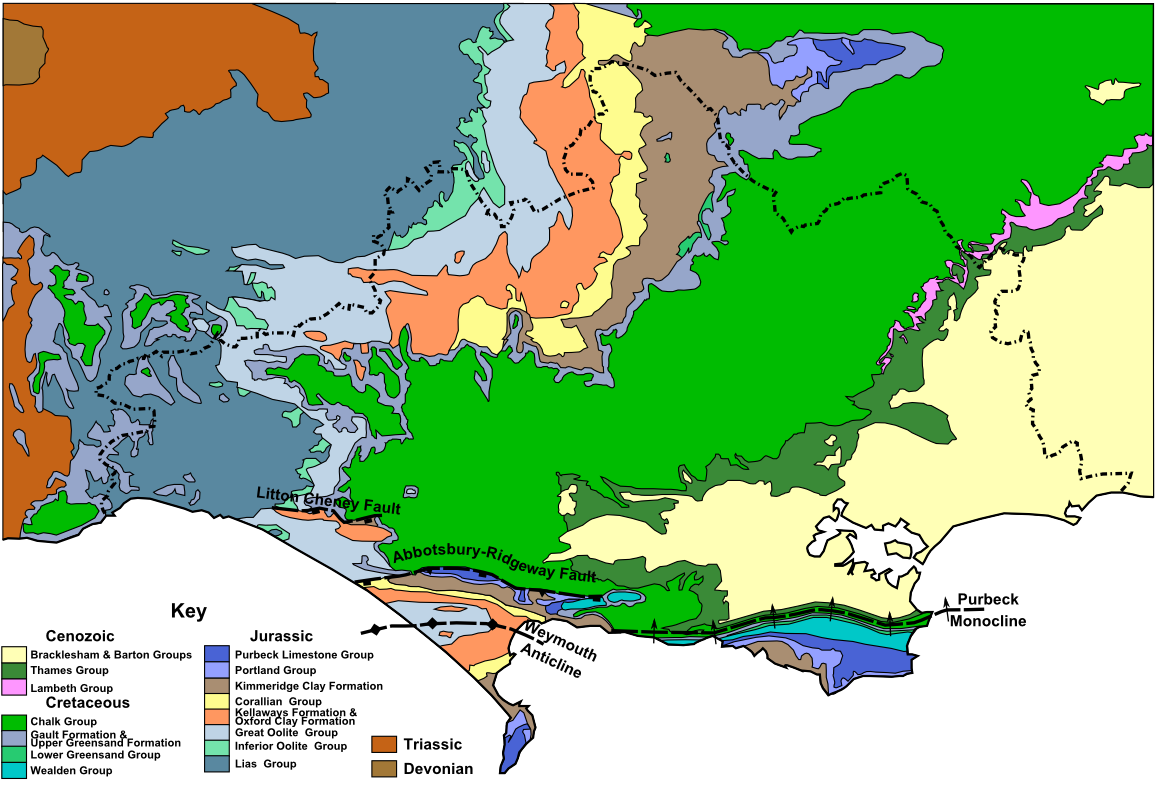 Geological map of Dorset redrawn after BGS maps here with main structures from Underhill and Paterson 1998 here